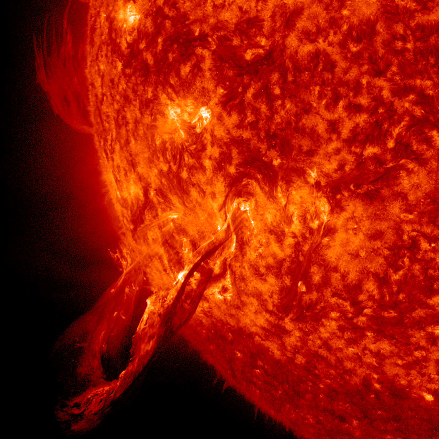 A picture recording a hyder flare event that occured over a three hour span on November 1, 2014.